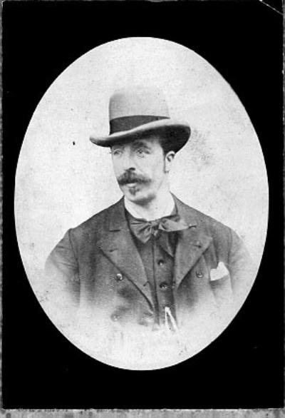 Photograph of Belgian journalist and socialist Jean Volders